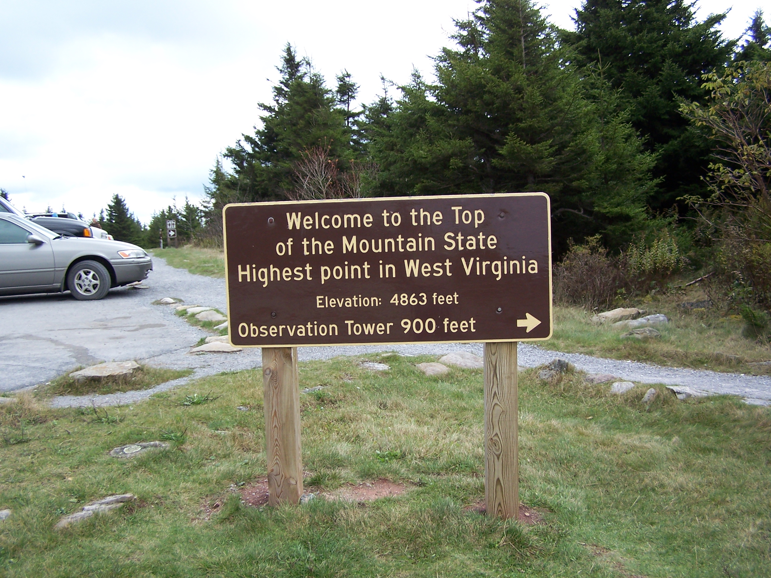 Sign for high point trail at Spruce Knob.